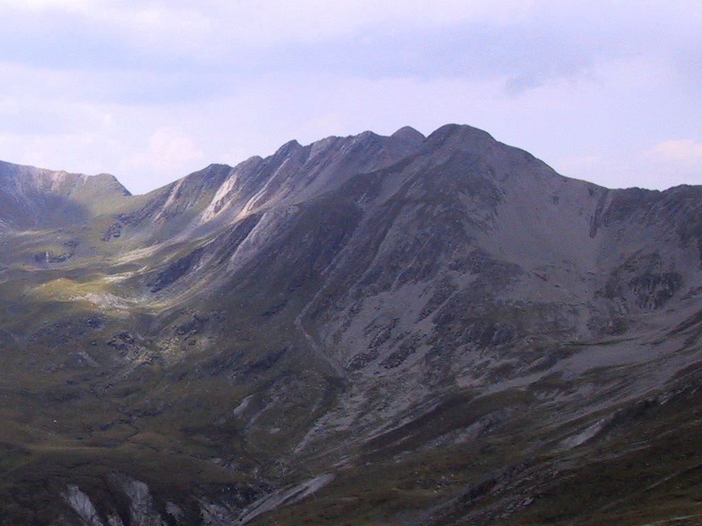 Pic de Freser